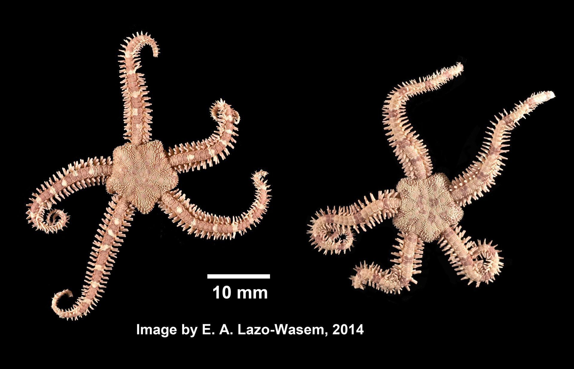 Ophiopholis aculeata (Linnaeus, 1767) - Preserved specimen Ophiopholis aculeata (YPM IZ 070592). Digital Image: Yale Peabody Museum of Natural History; photo by Eric A. Lazo-Wasem 2014 Location Country or area United States of America County Barnstable County Decimal latitude 41.665 Decimal longitude -69.8017 Depth 34 Higher geography North America; Atlantic Ocean; USA; Massachusetts; Barnstable County; Chatham Locality about 7 miles E of Chatham Municipality Chatham State province Massachusetts Verbatim depth 111-111 ft Water body Atlantic Ocean